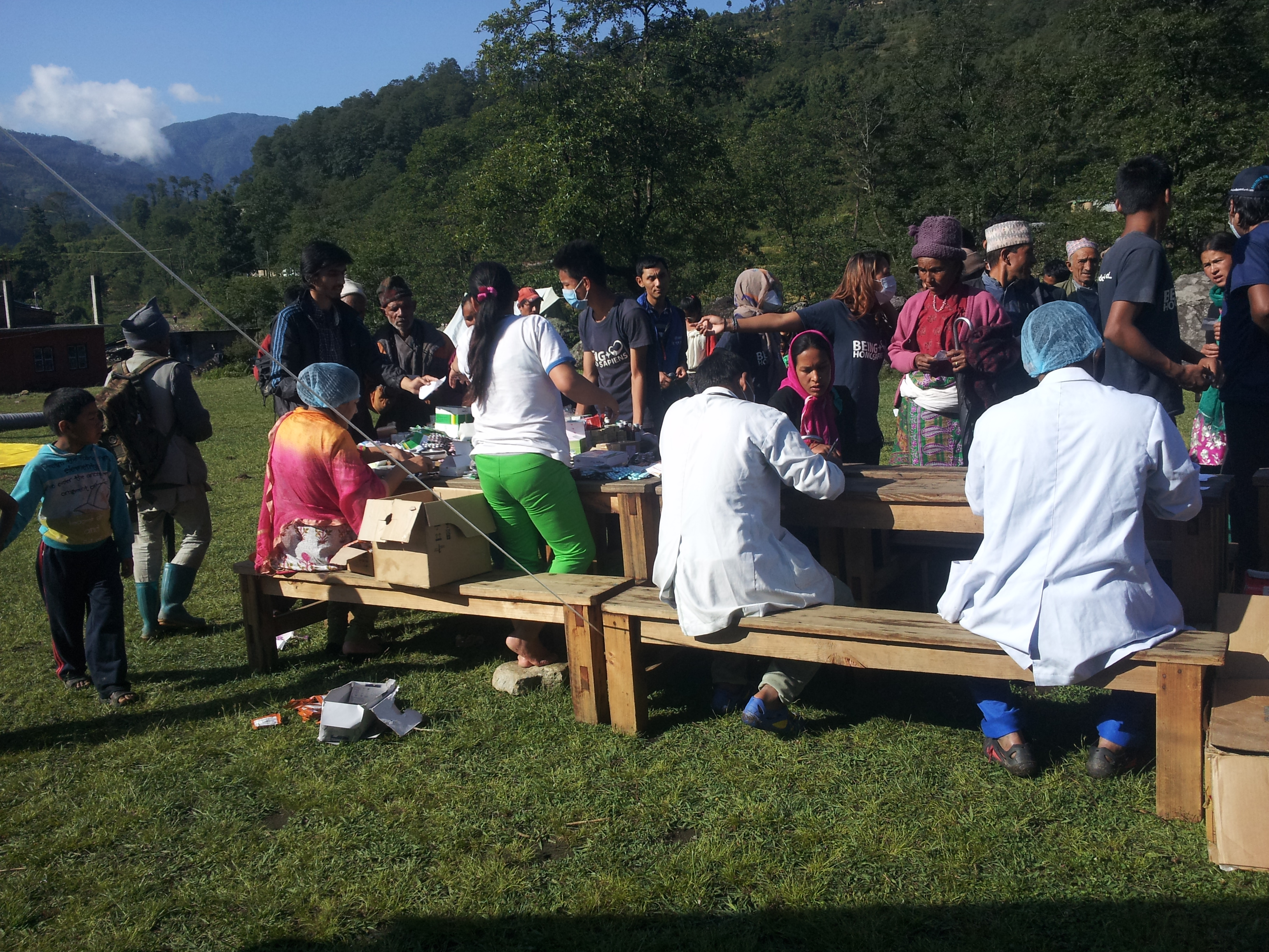 doctors distributing some medicines to villagers